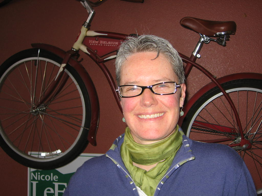 Idaho State Senator Nicole LeFavour, 19th District.